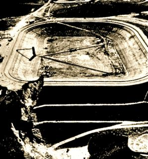 Aerial view of the 1964 failure of the Baldwin Hills Reservoir Dam, in the Baldwin Hills of southwest Los Angeles. Its failure resulted in destroying homes down—canyon, and flooding properties in the adjacent zone on the LA plain.